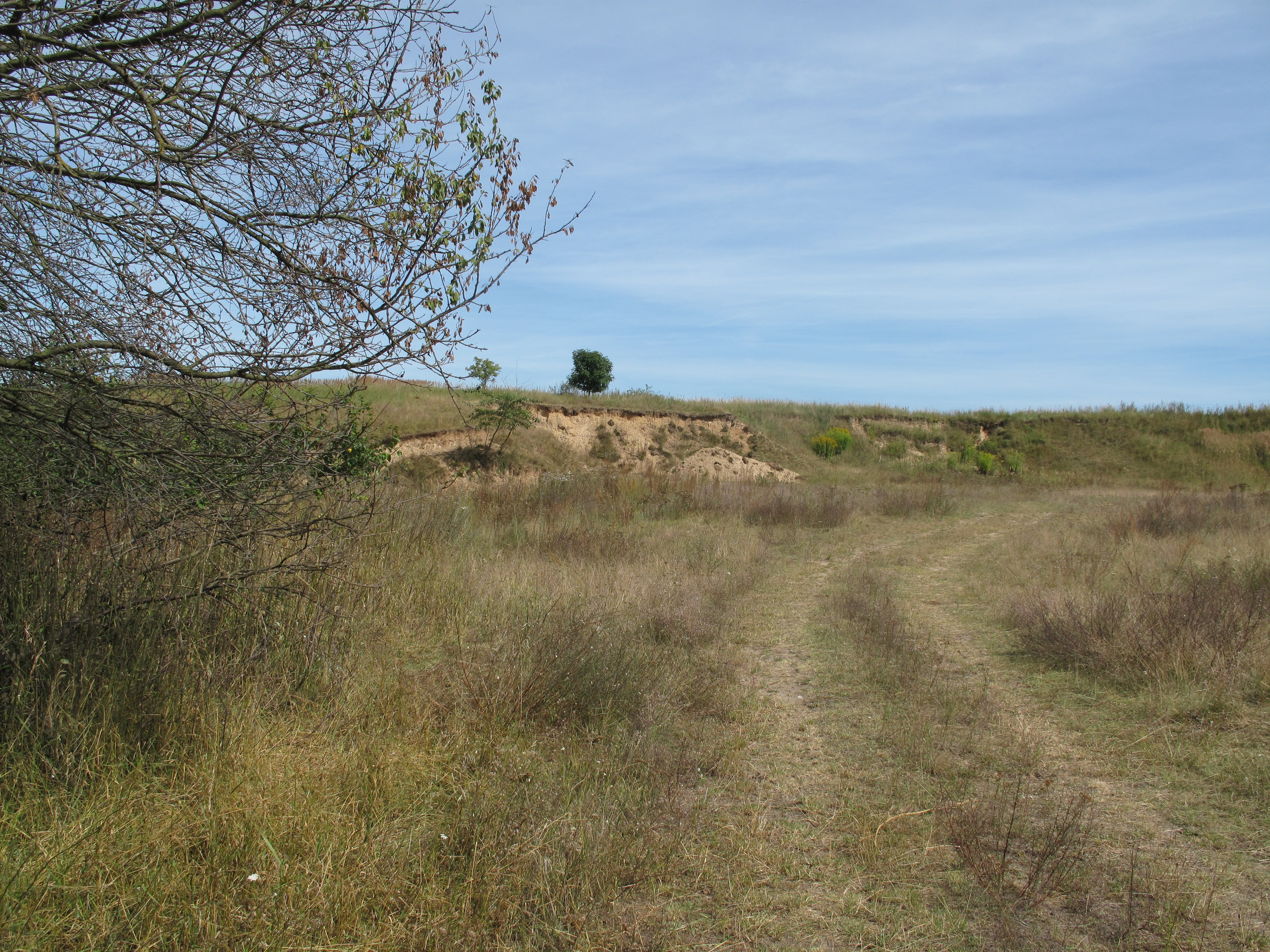 Barnim-landscape with dry vegetation in the southern area of Grunow. The village Grunow is a civil parish (Ortsteil) of the municipality Oberbarnim in the District Märkisch-Oderland, Brandenburg, Germany. Grunow was first mentioned in written documents in 1315 and is situated on the Barnim Plateau in the Märkische Schweiz Nature Park. In 2010 the village had about 350 inhabitants (incl. it’s part Ernsthof). Due to its fieldstone-Builsdings and –streets Grunow is a part of the Oberbarnimer Feldsteinroute, a 41,5 kilometers long walking and bike trail in the traces of the building material fieldstone.